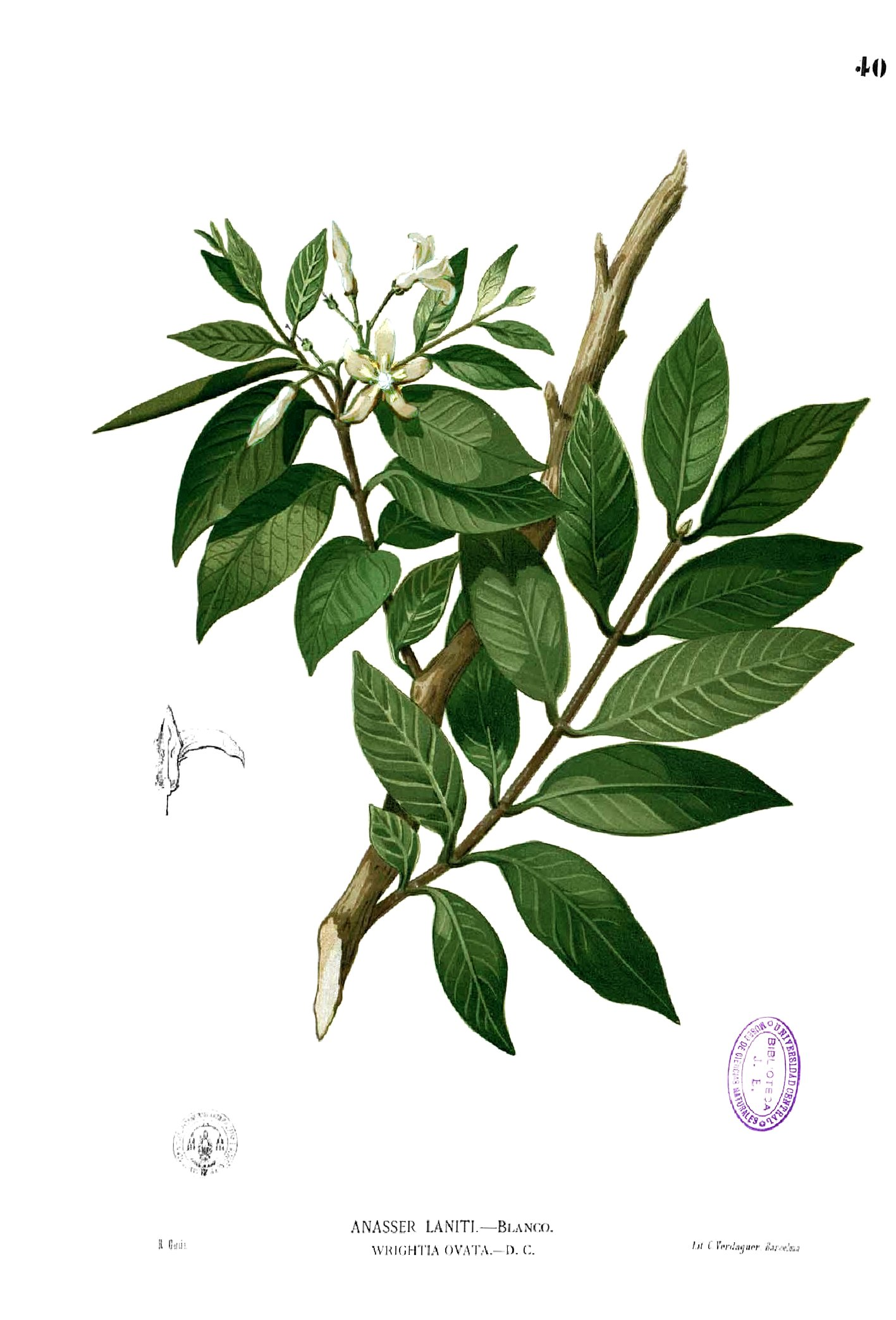 Plate from book